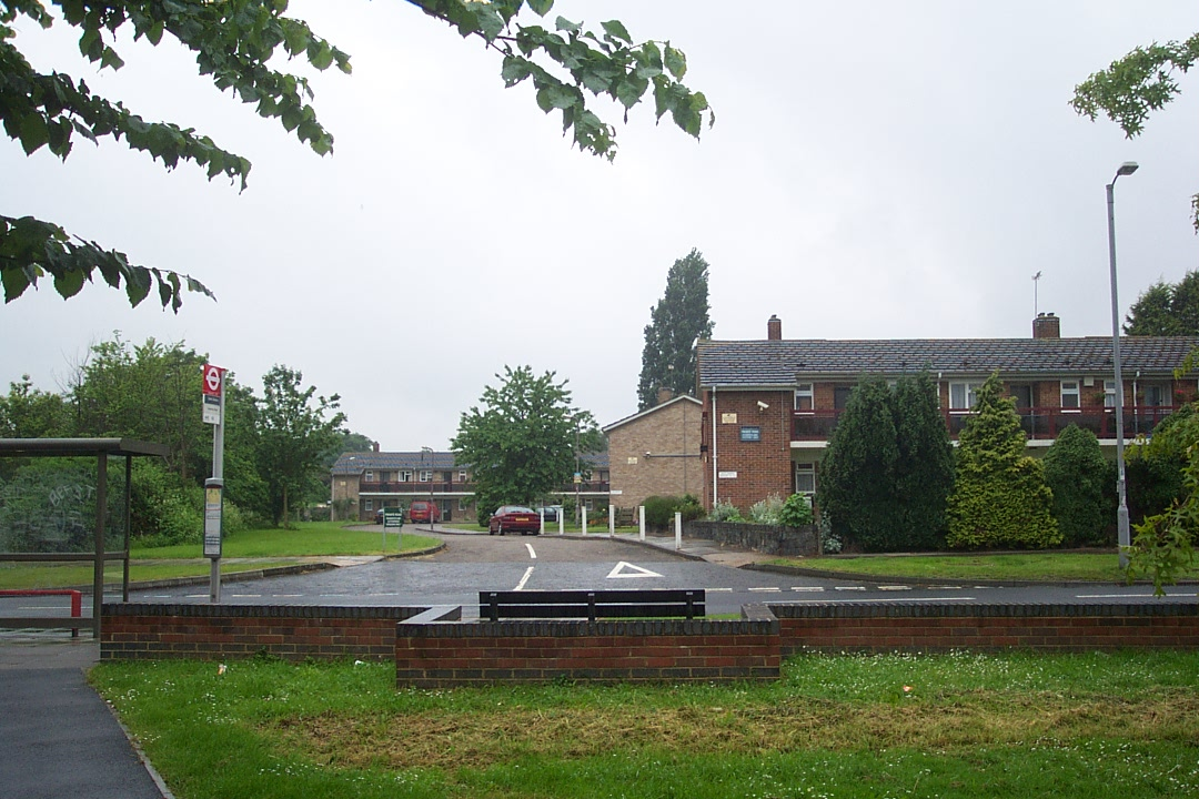 Picture taken by Tim Trent On the left of the picture the greenery is the bank of a small stream, a tributary to the Hogsmill which bounded the Surbiton Lagoon site. The photo is of the flats in Edith Gardens which are opposite where the Lagoon used to be.